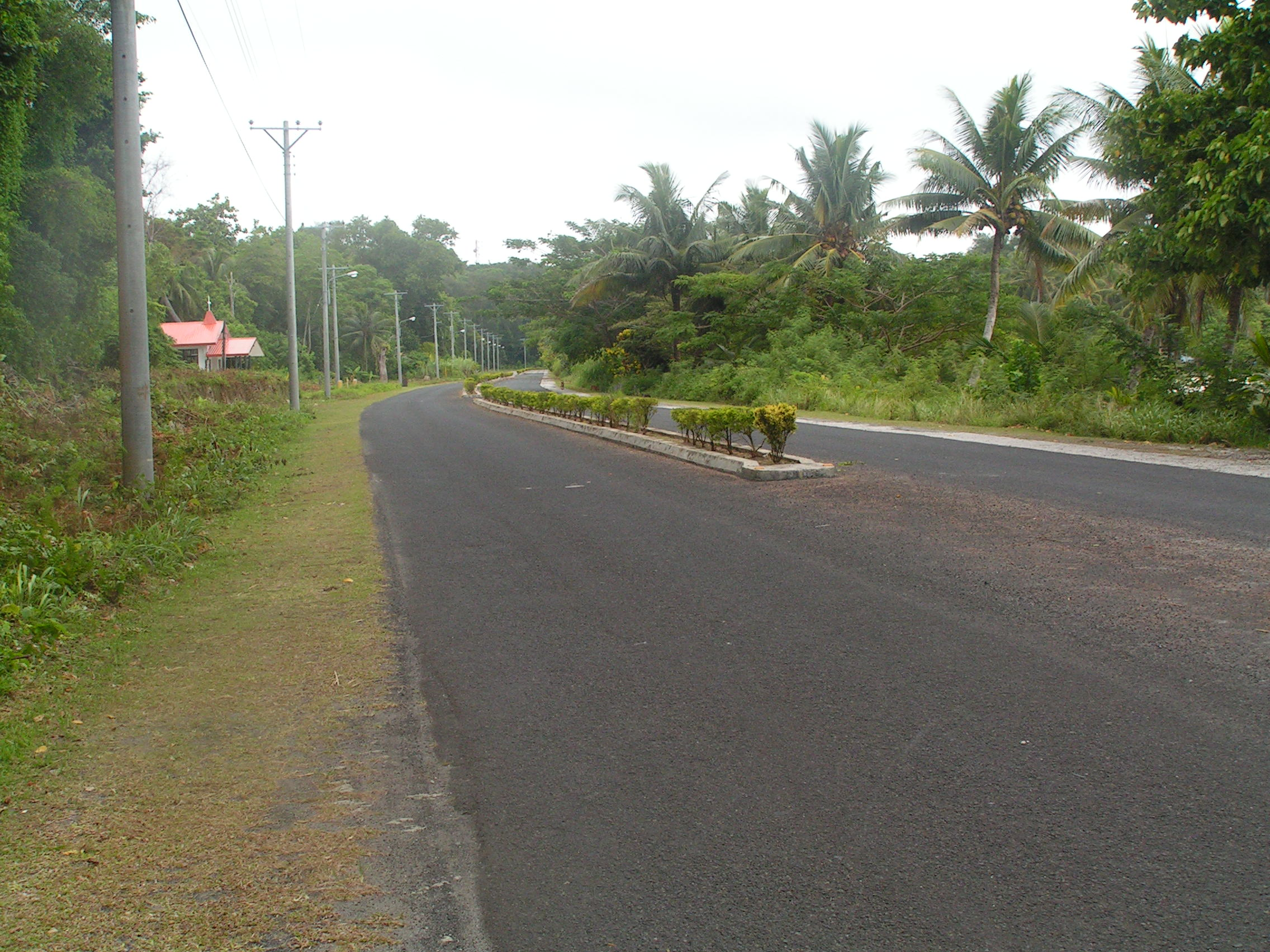 Main Street in Peleliu